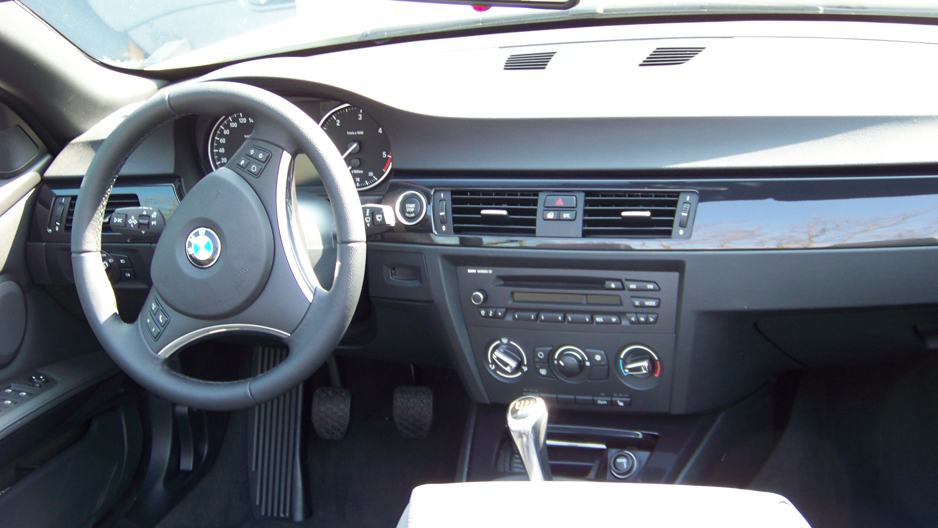 Interior of BMW 3 Series